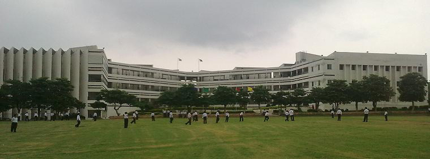 This is the photo of OPF Boys College, H-8/4, Islamabad